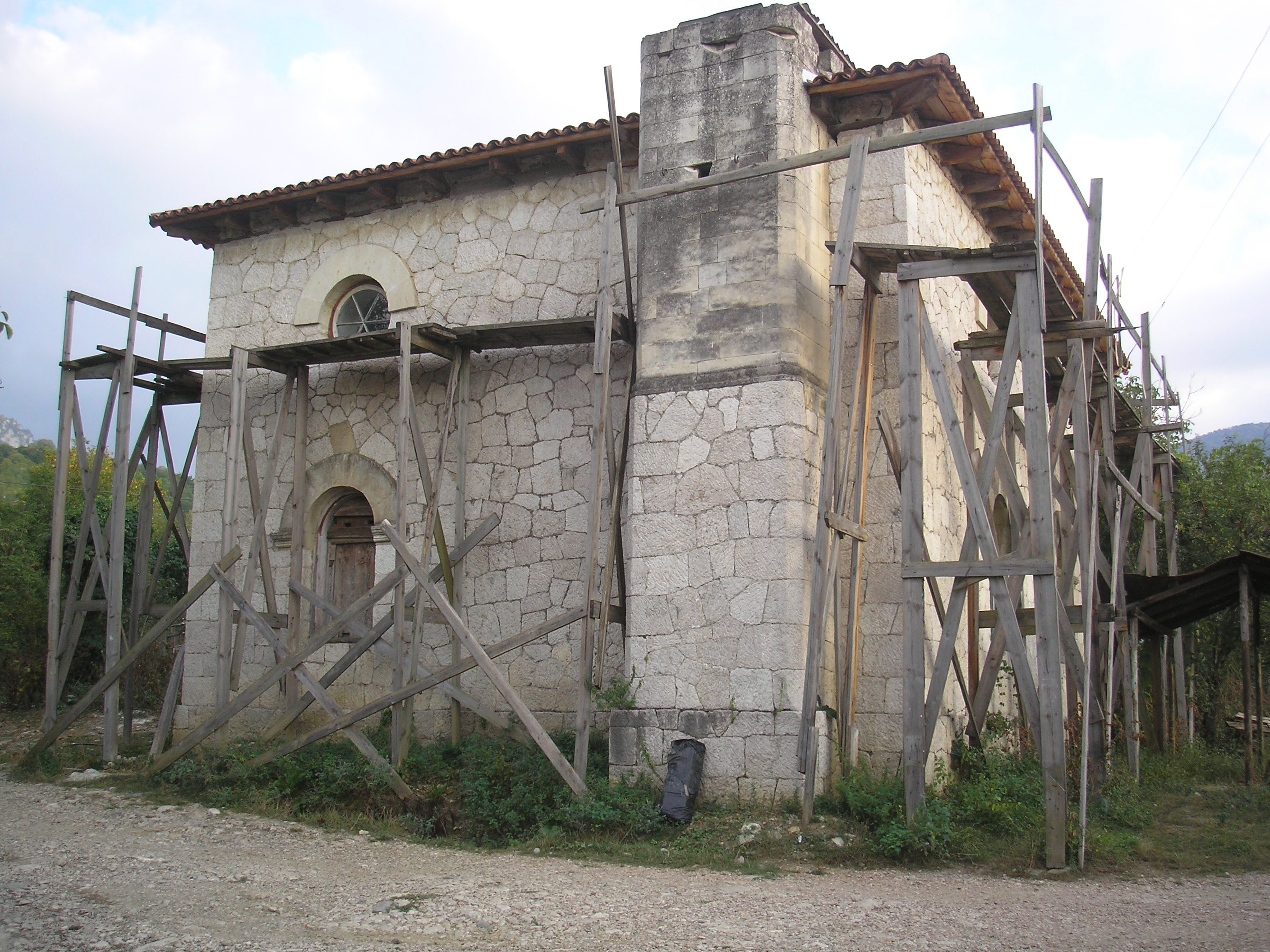 Bulgakov mosque, Sokolinoye, Crimea